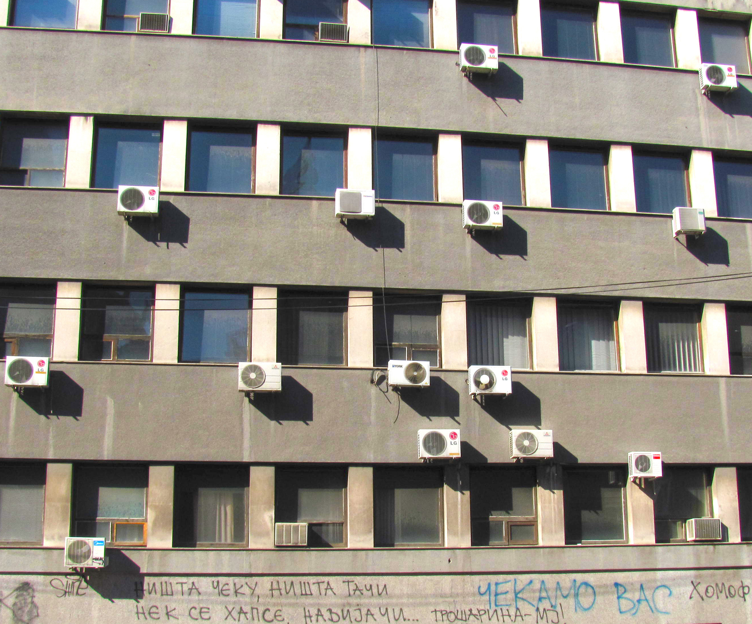 Air conditioners on a house in Nis, Serbia This photograph was taken with a Canon PowerShot SX120 IS